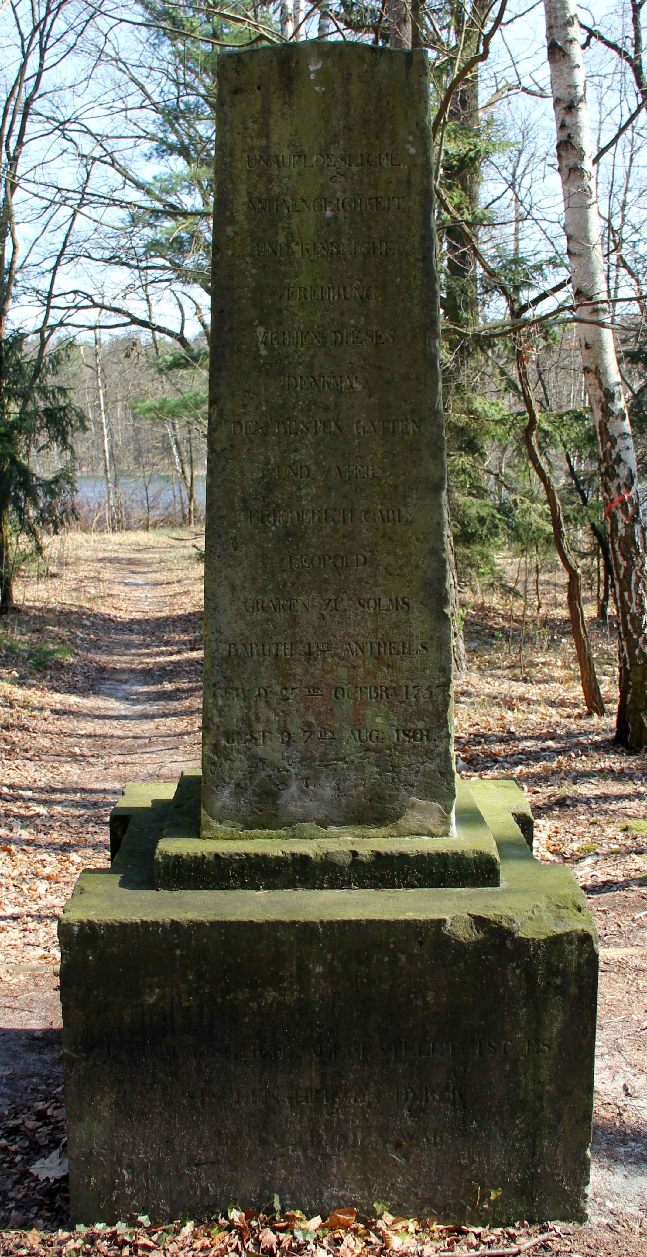 Memorial stone, Friedrich Carl Leopold Graf zu Solms, Großer Zeschsee, Zesch am See, Germany